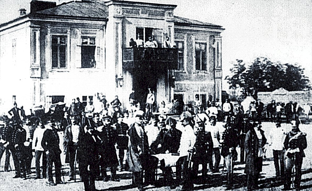 Photograph of the Austrian general Johann Coronini-Cronberg and his troops in front of the Meitani House in Bucharest